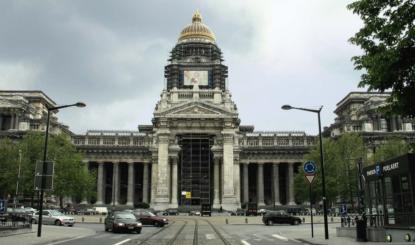 Law Courts of Brussels under renovation.